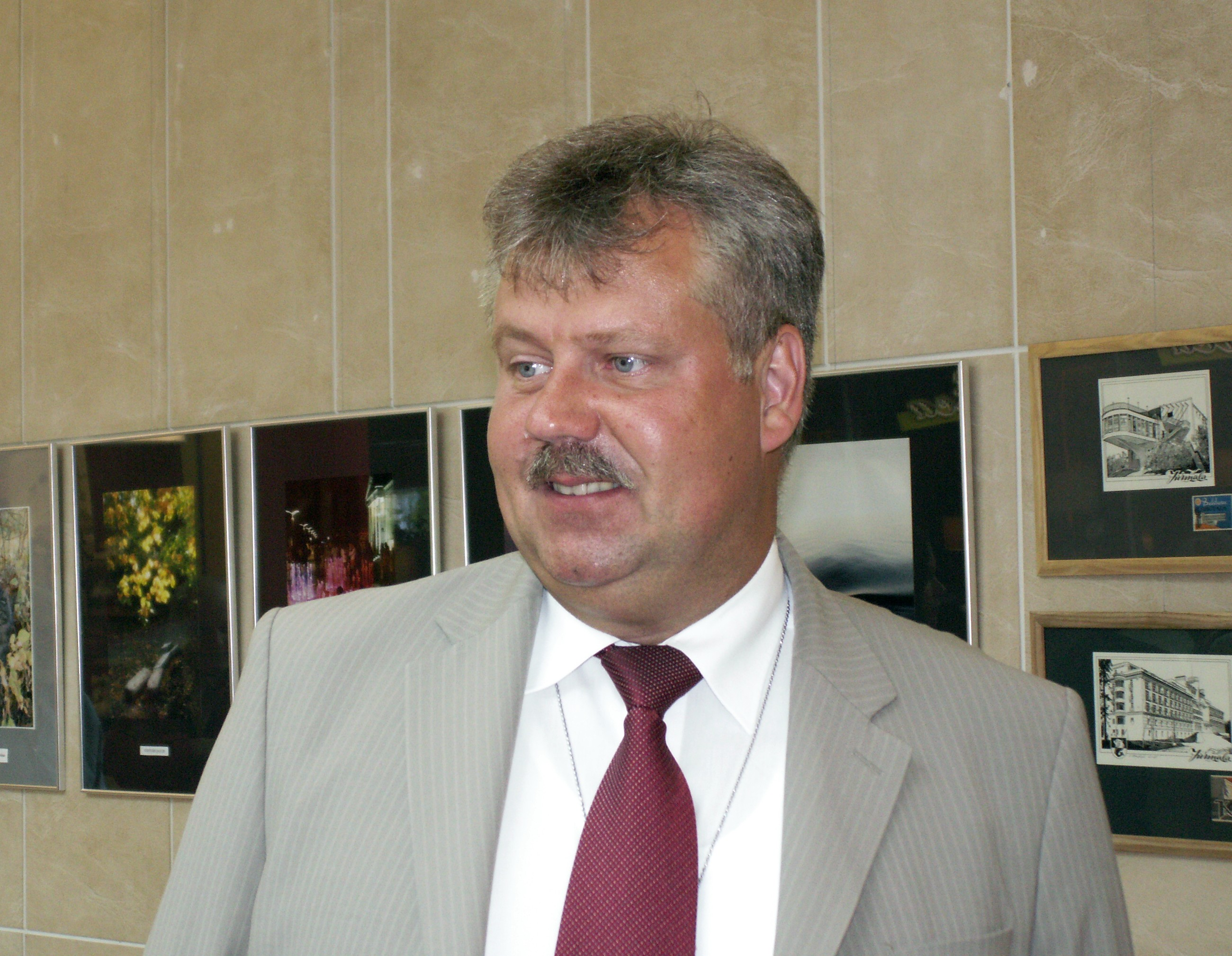 Hardijs Baumanis, ambasador of Latvia in Lithuania